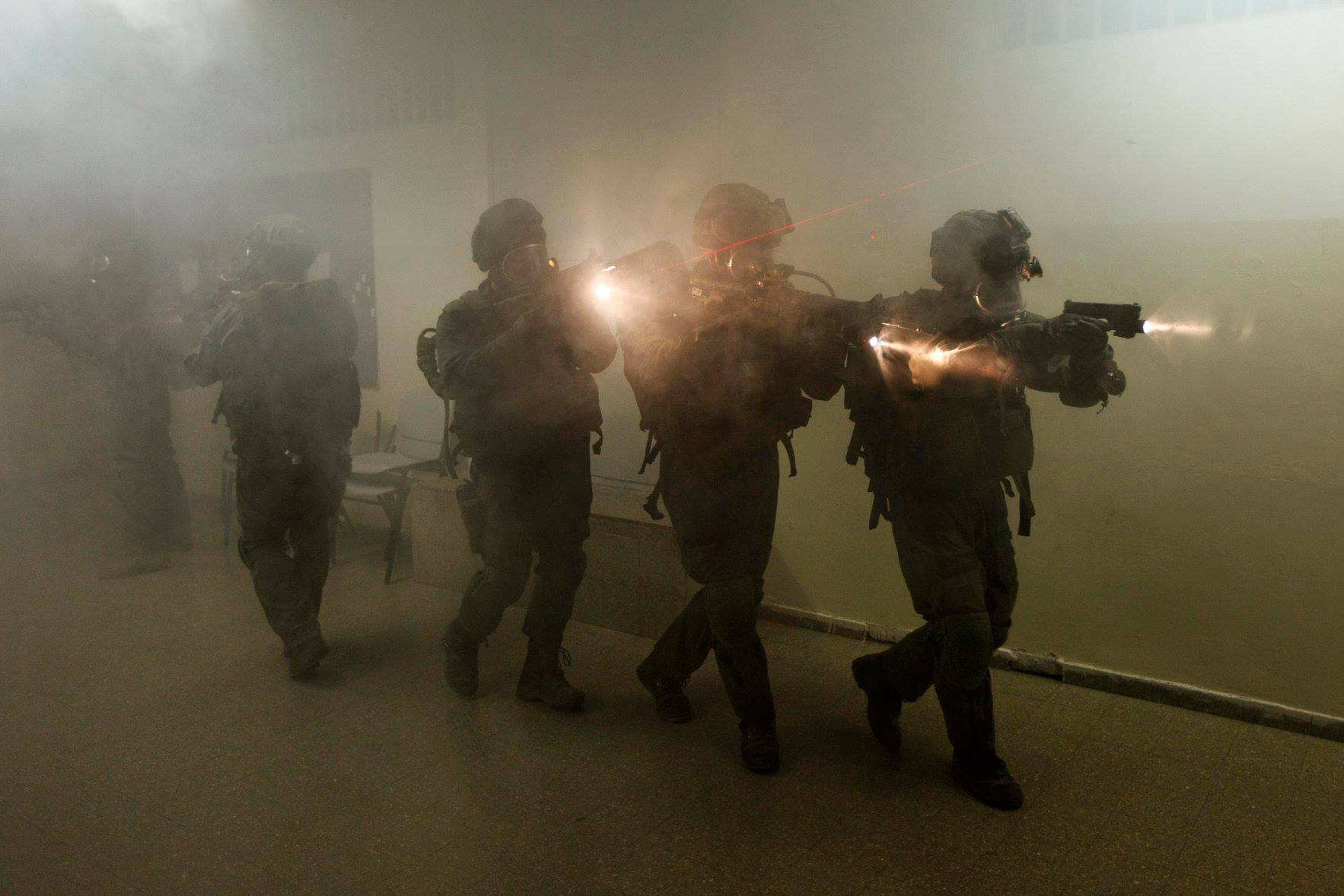 YAMAM - Israeli elite counter-terrorism unit